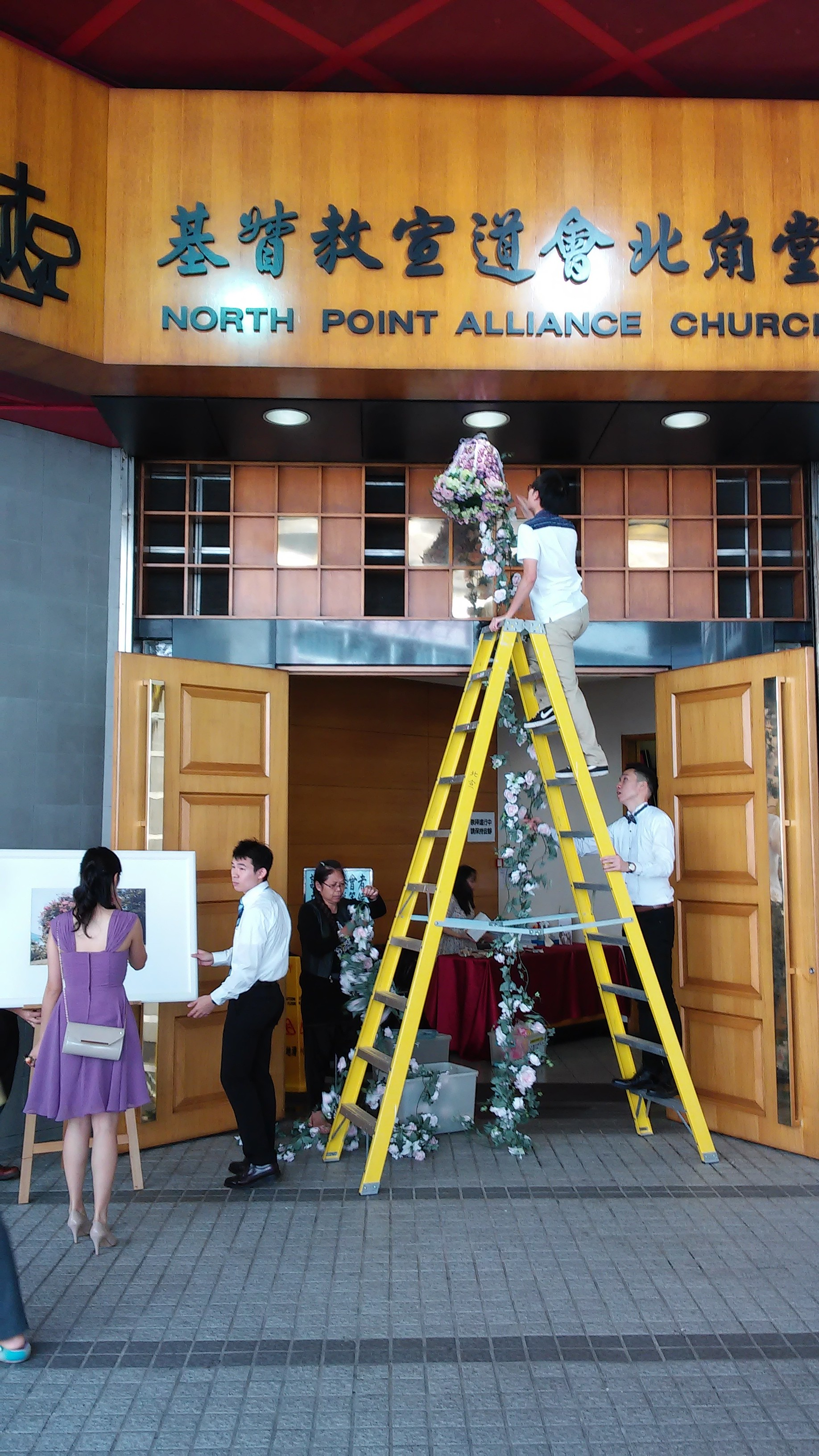 炮台山 Fortress Hill 康澤花園 Fortress Metro Tower North Point Alliance Church 摺梯 folding wood stairs